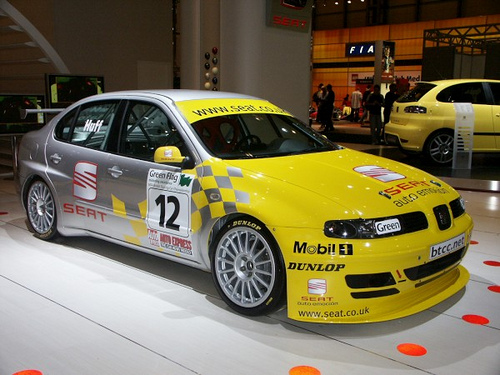 Seat-Touring-Car-600